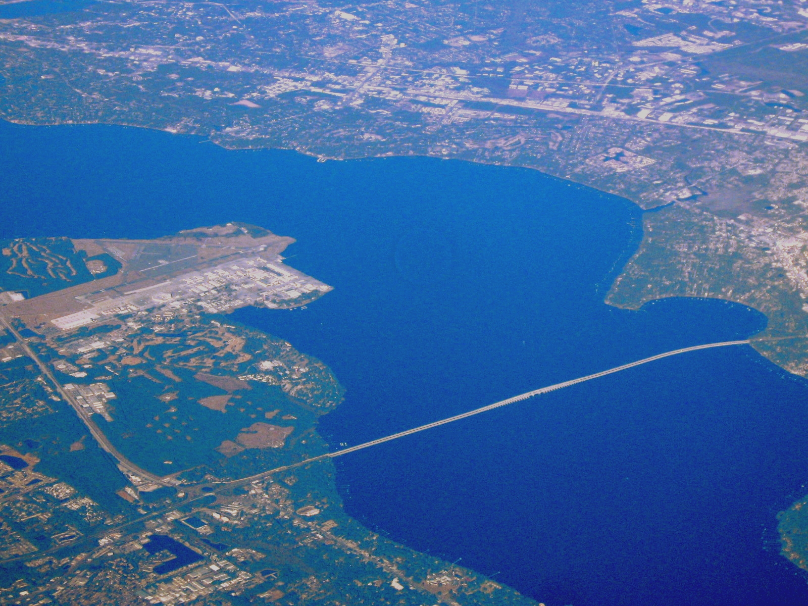 Aerial view of the Buckman Bridge on I-295 south of Jacksonville looking northeast.